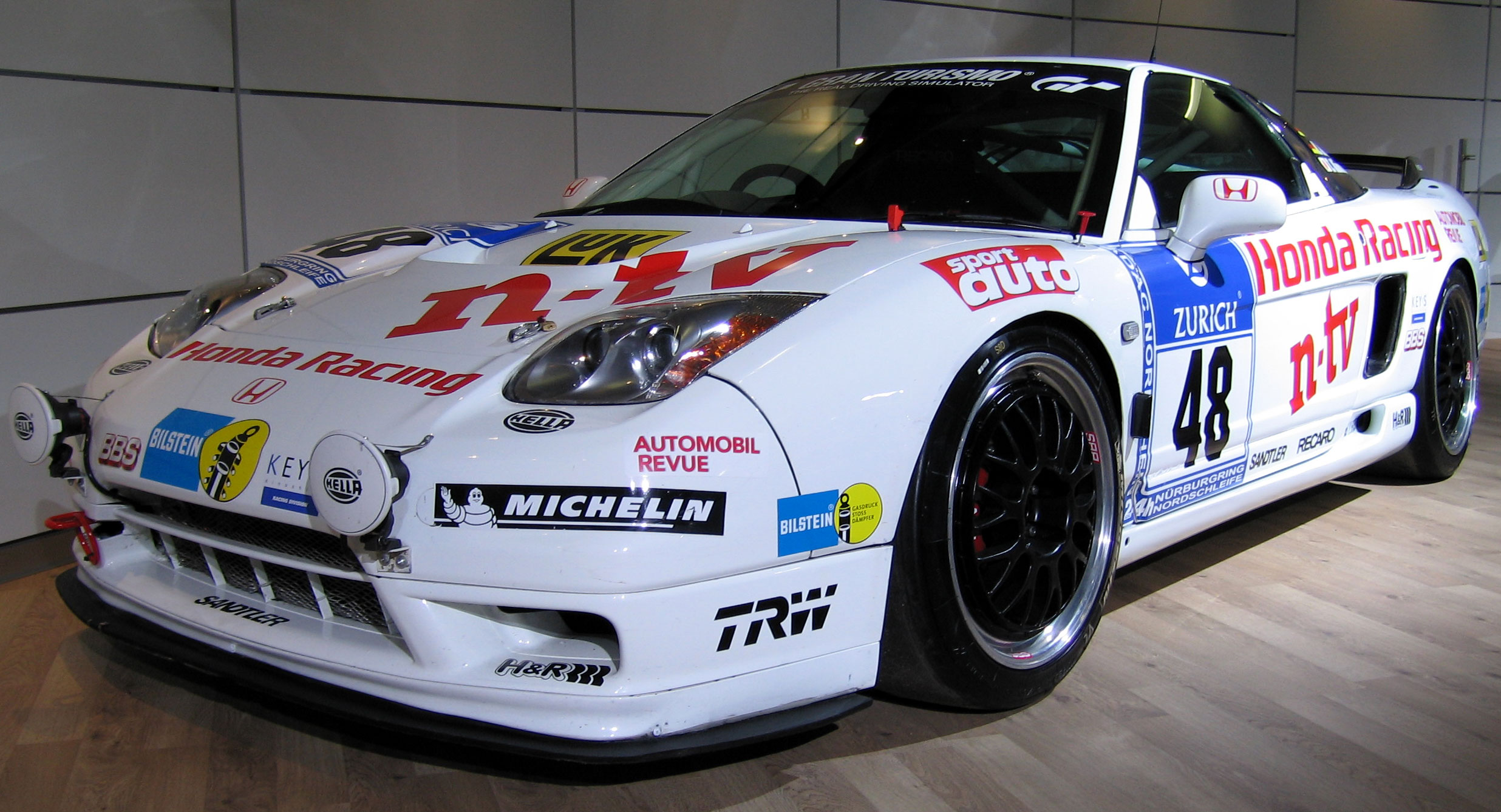 Honda NSX-R at the IAA 2007